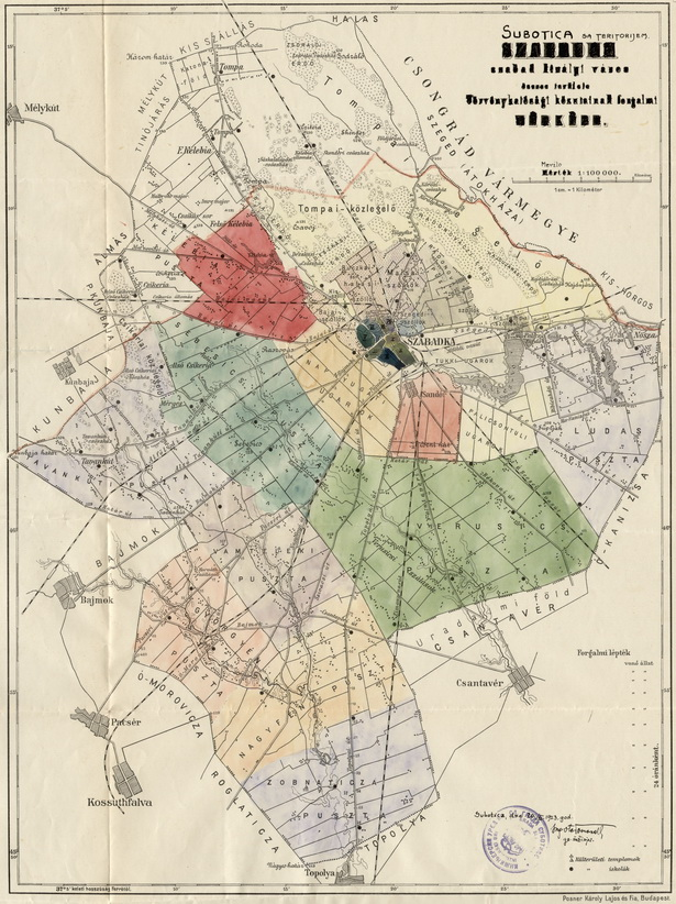 Subotica in 1923